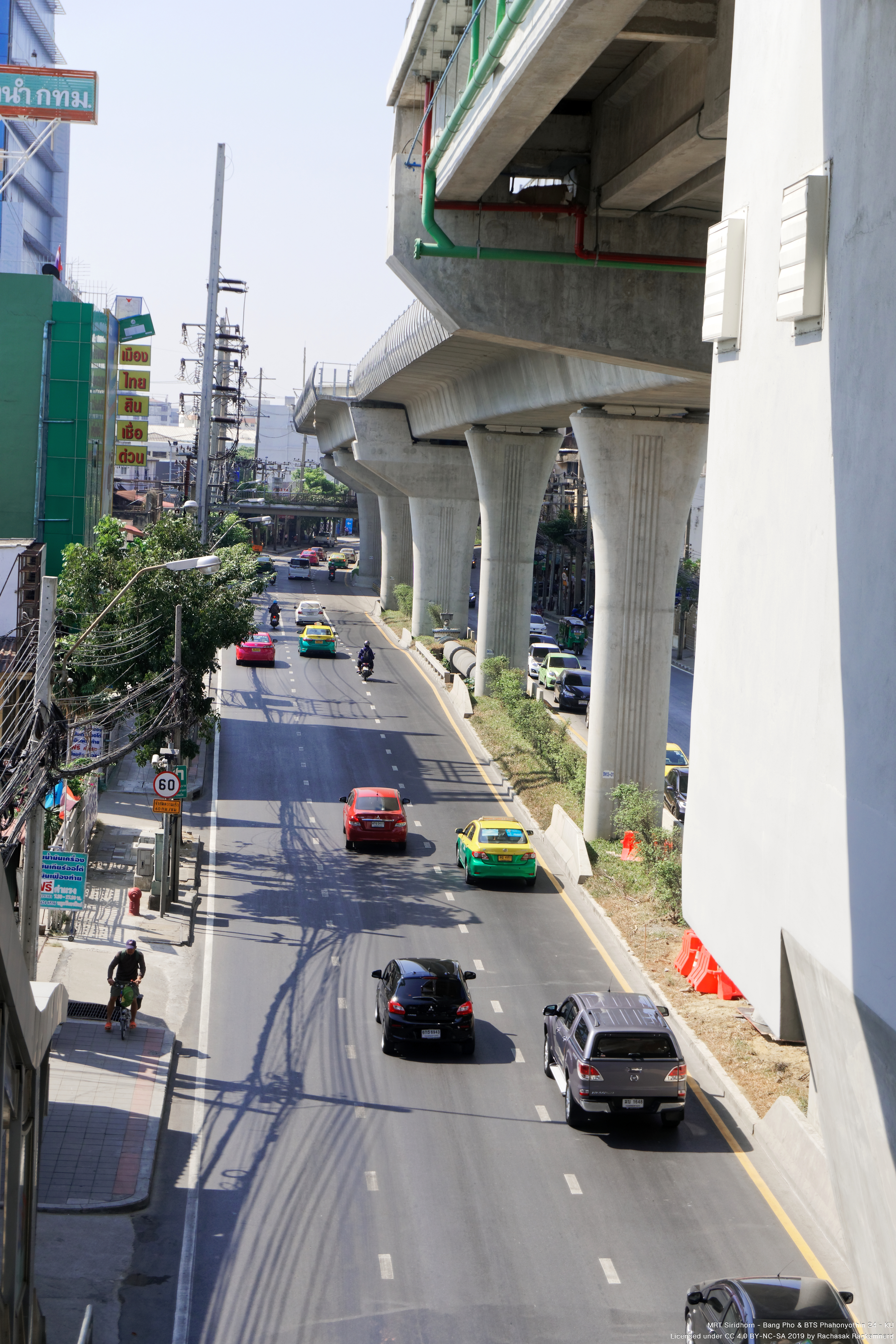 MRT Bang Plad - Charansanitwong road